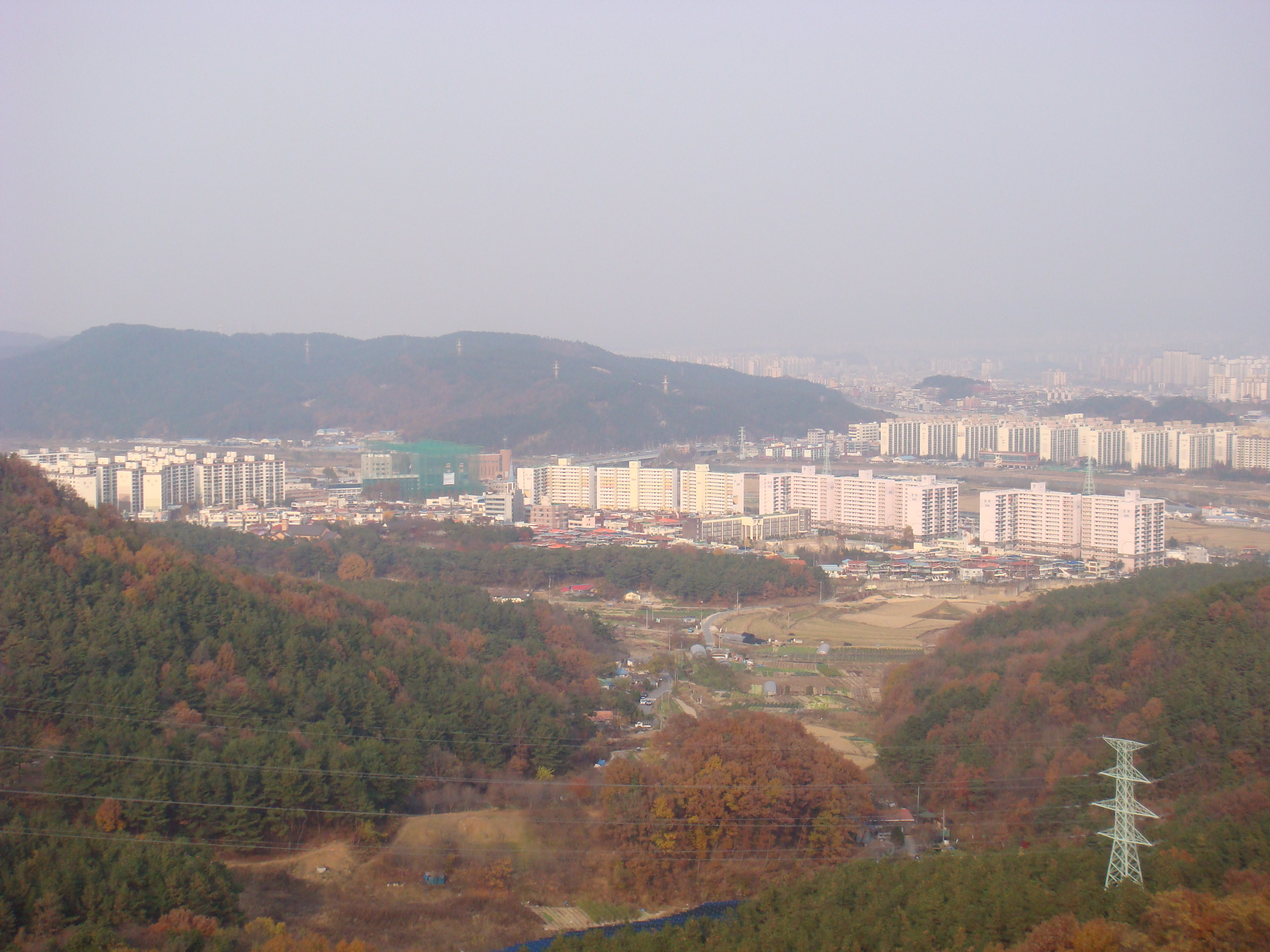 view of Gasunwon-dong on the Gubong mountain, Daejeon, South Korea